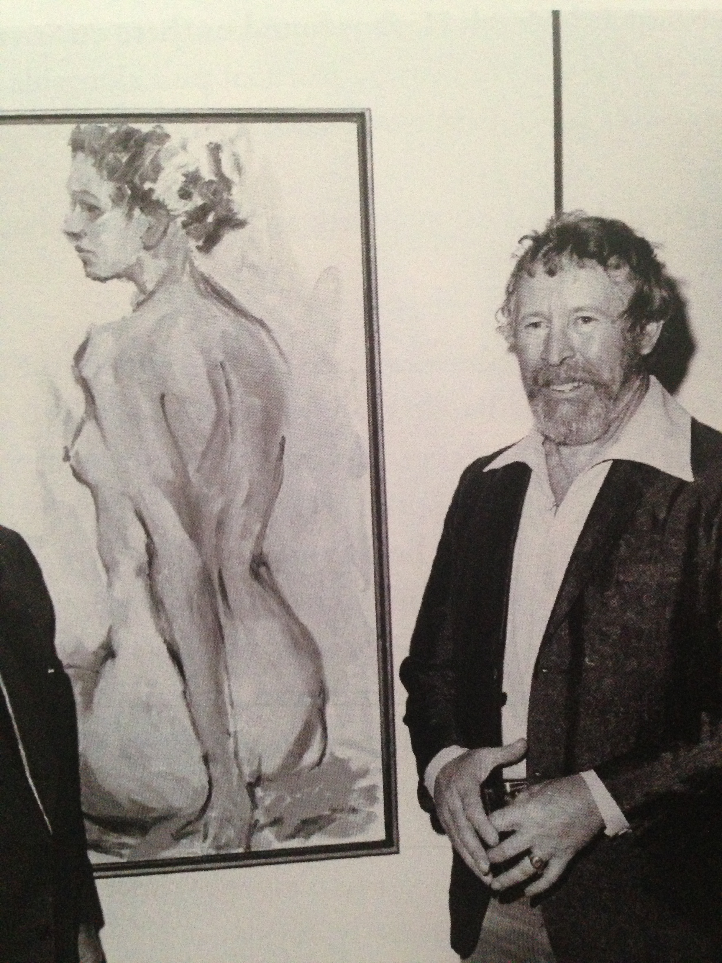 William Moise 1973